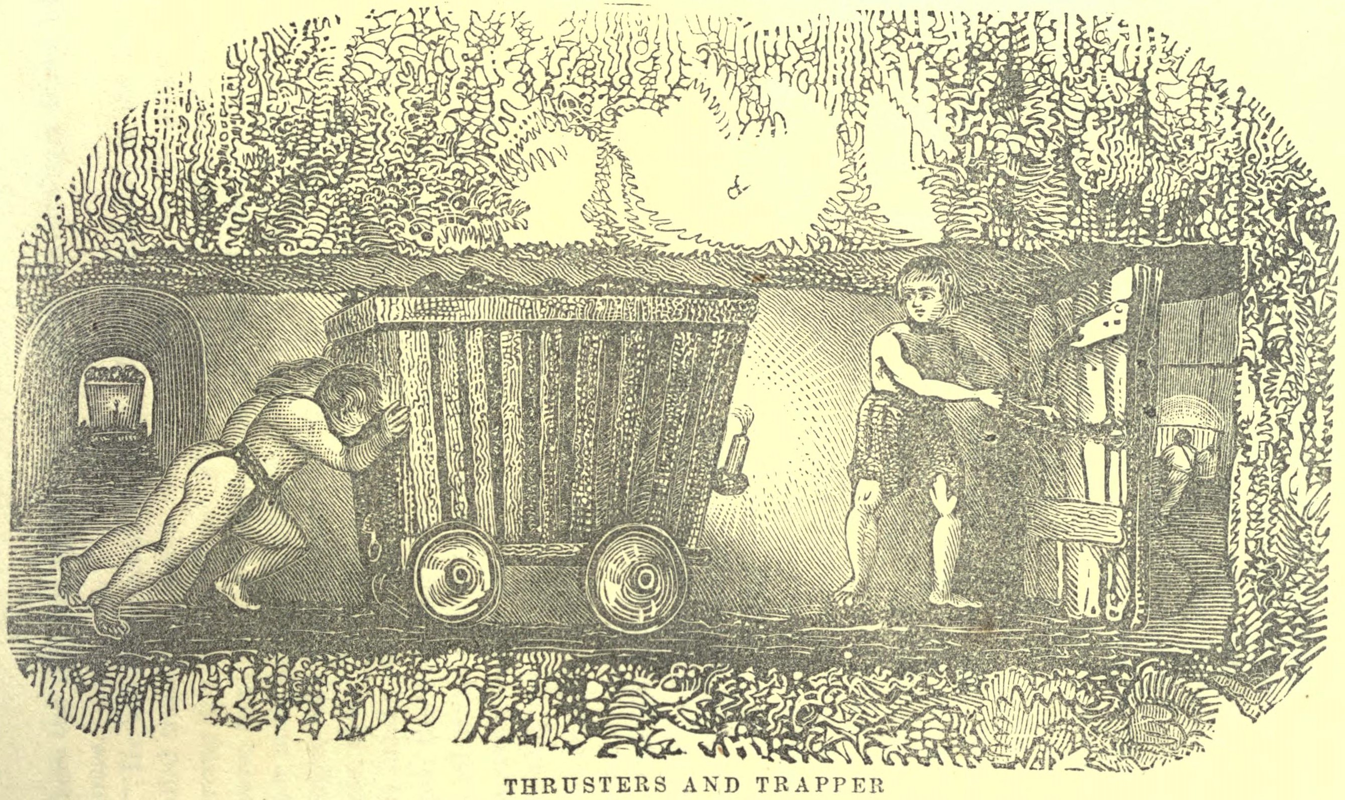 Two thrusters and a trapper in a UK (English/Welsh) coal mine about 1853, from White Slaves of England, J. C. Cobden (1854, Auburn & Buffalo: Miller Orton & Mulligan)